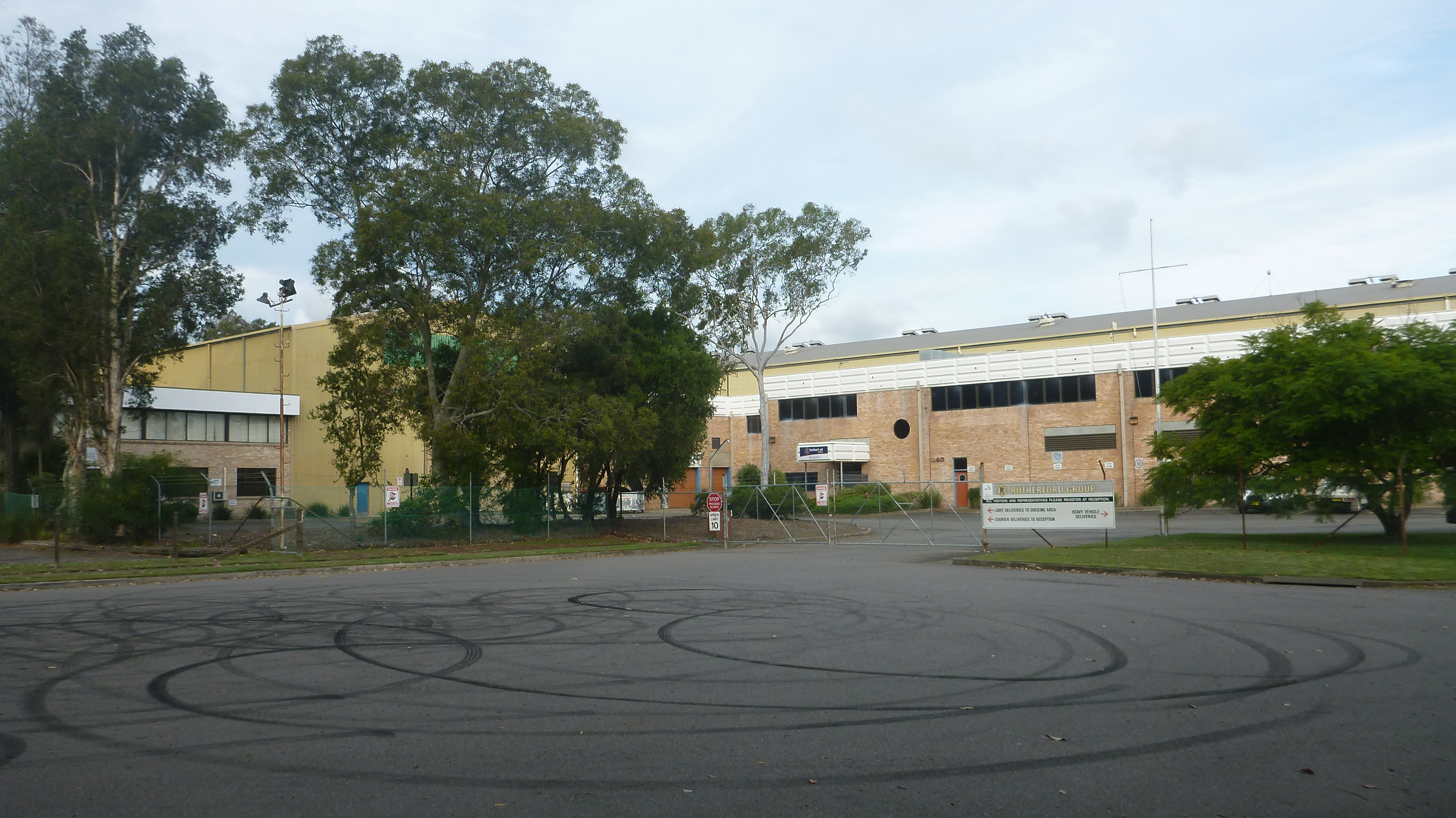 The former buildings of Ramsay Fibreglass, a subsidiary of Carrington Slipways (now Forgacs Shipyard Tomago), at Tomago, seen from Laverick Avenue in New South Wales, Australia. The facility was built for the specific purpose of constructing Bay-class minehunters for the Royal Australian Navy